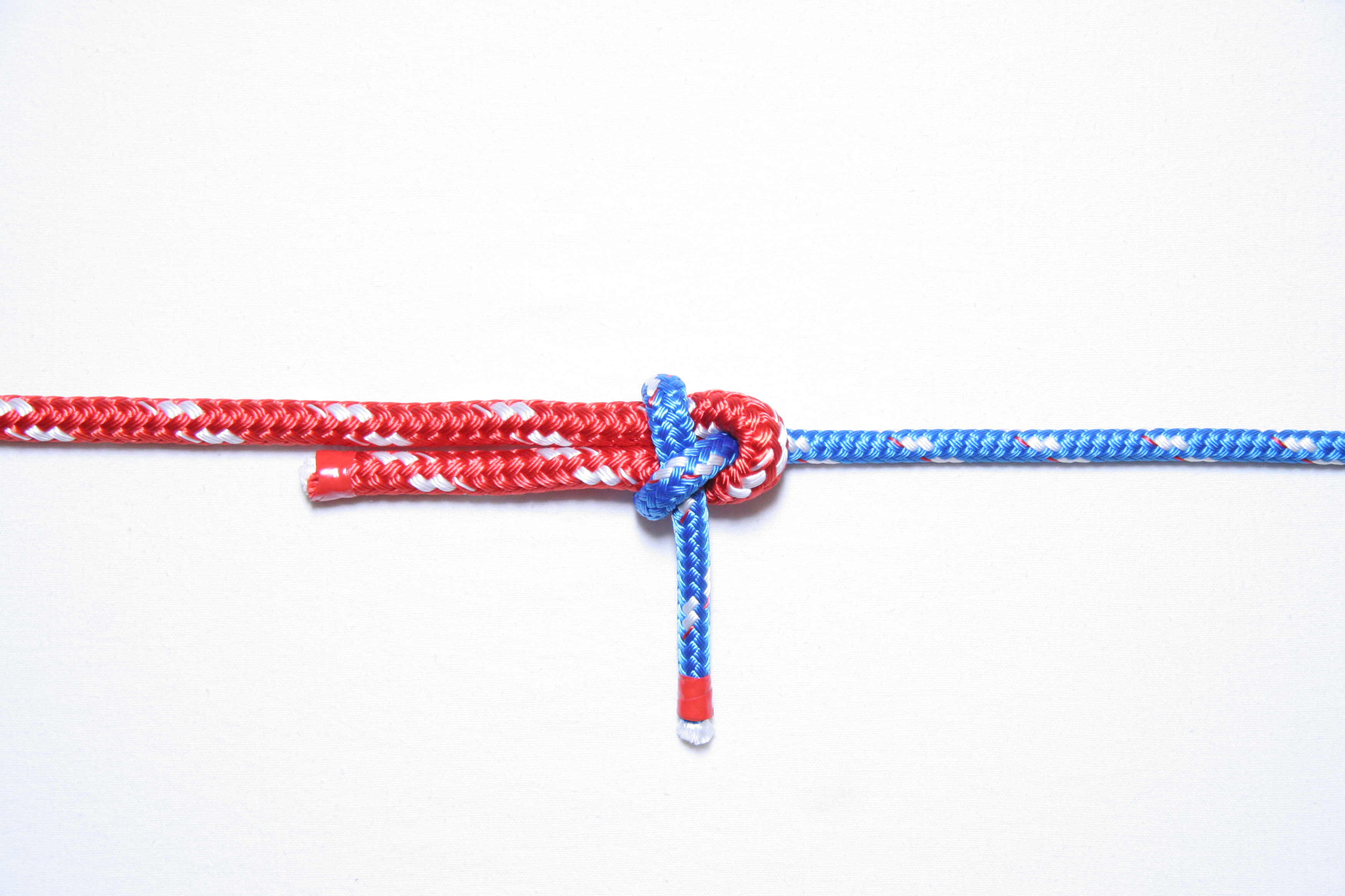 The Sheet Bend is used to join ropes of different diameter or rigidity.